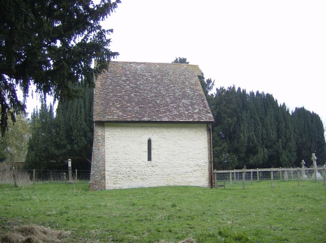 Old Church of St Mary the Virgin, Preston Candover (from north) See this photo for full description.